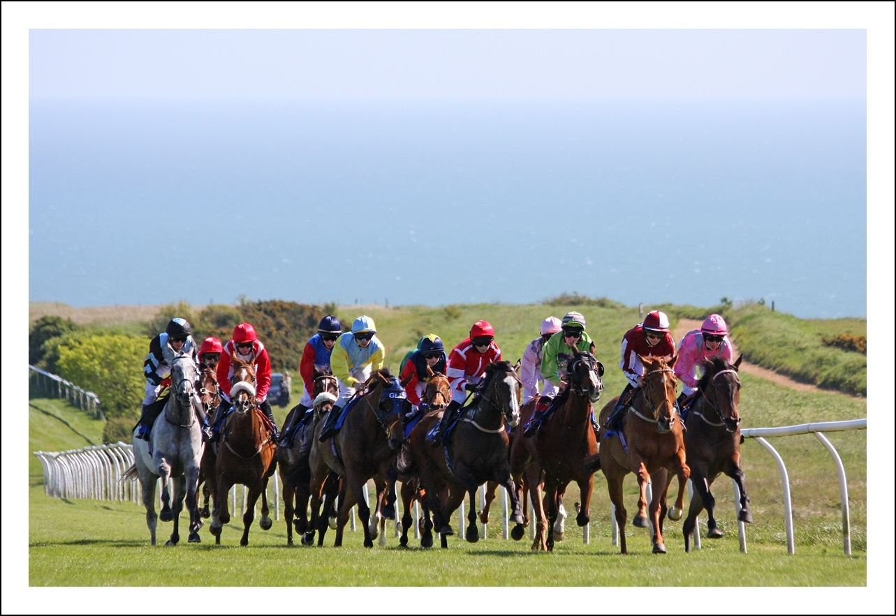 An image of a horse race at Brighton showing the course's unique position, with horses running along the South Downs with the sea in the background